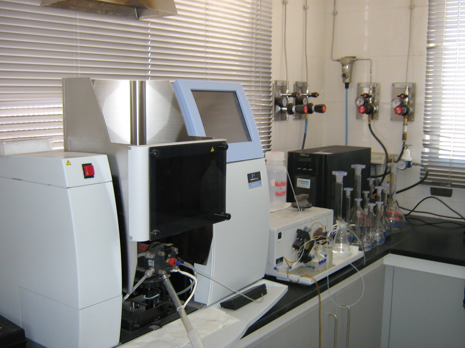 AA Machine